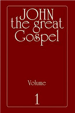 Cover page of John the great Gospel, 2011